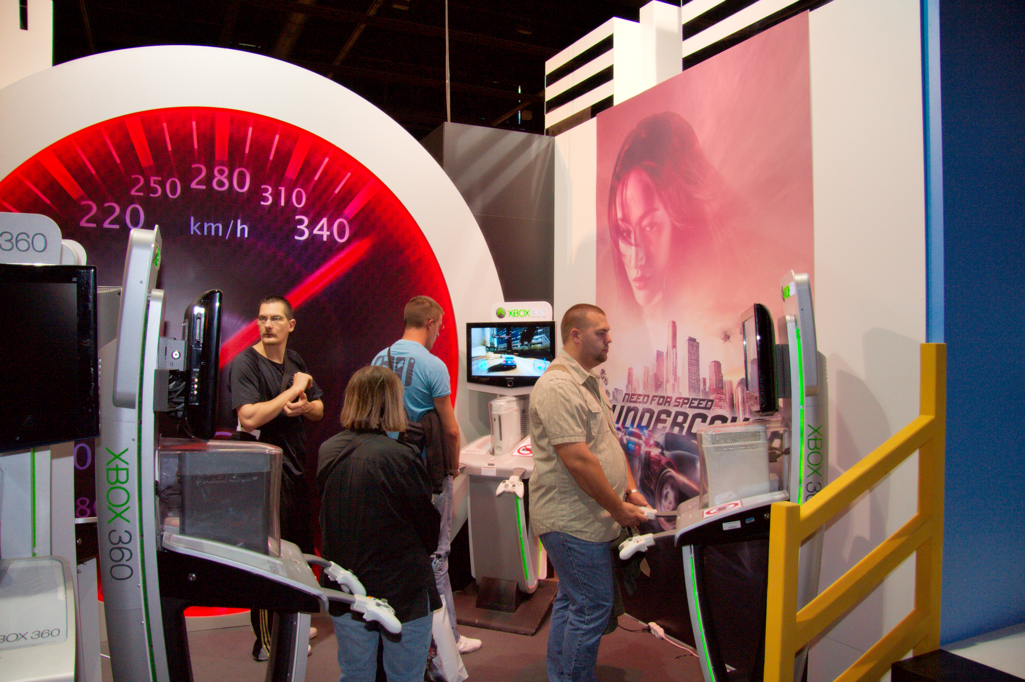 Need for Speed: Undercover at Festival du jeu vidéo 2008 (video game festival) (Paris, France).